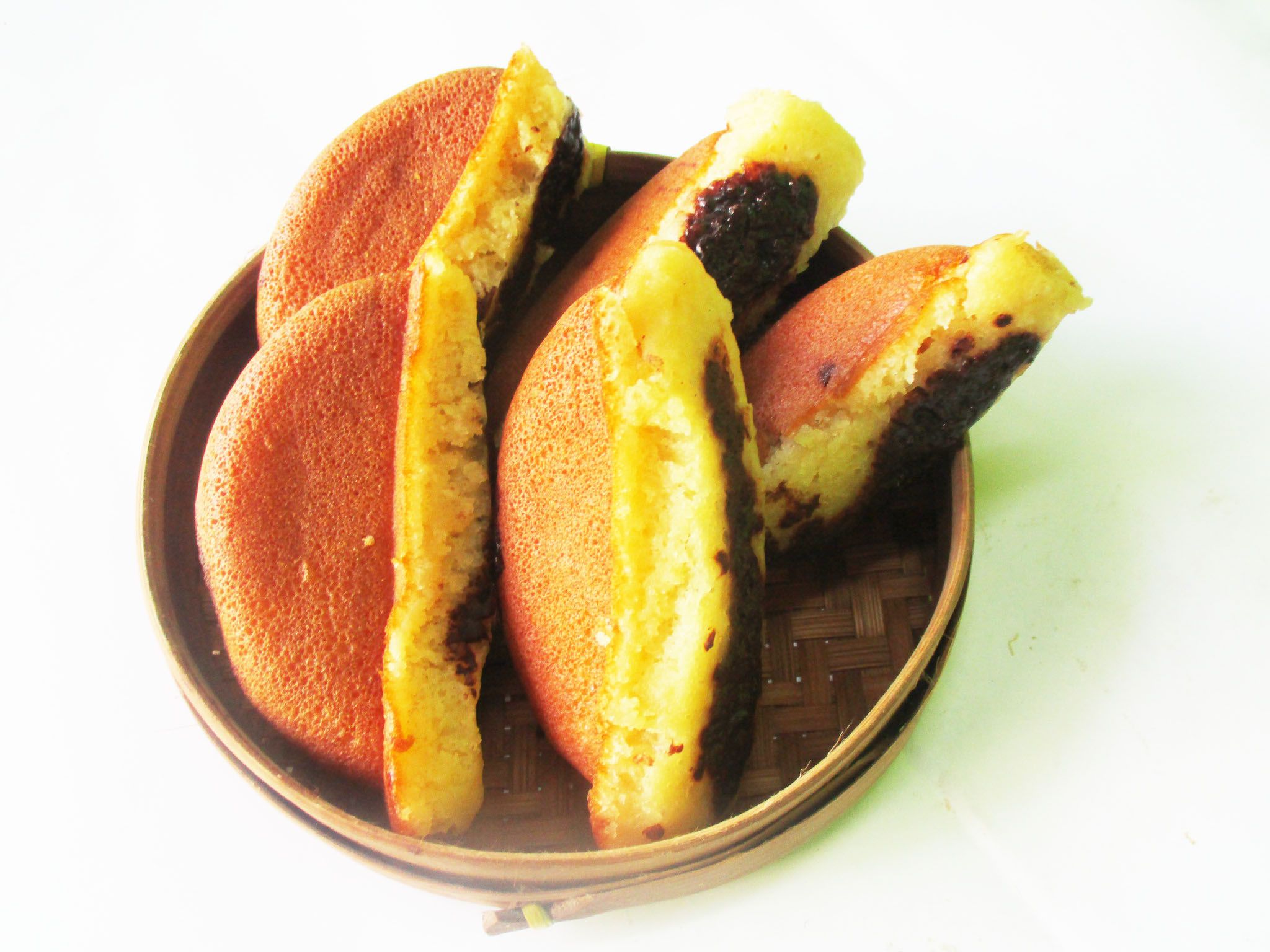 Pukis is a cake originating from Indonesia. This cake is made from a mixture consisting of eggs, sugar, flour, yeast and coconut milk. The mixture is then poured into a half-moon mold and baked on fire (not oven).